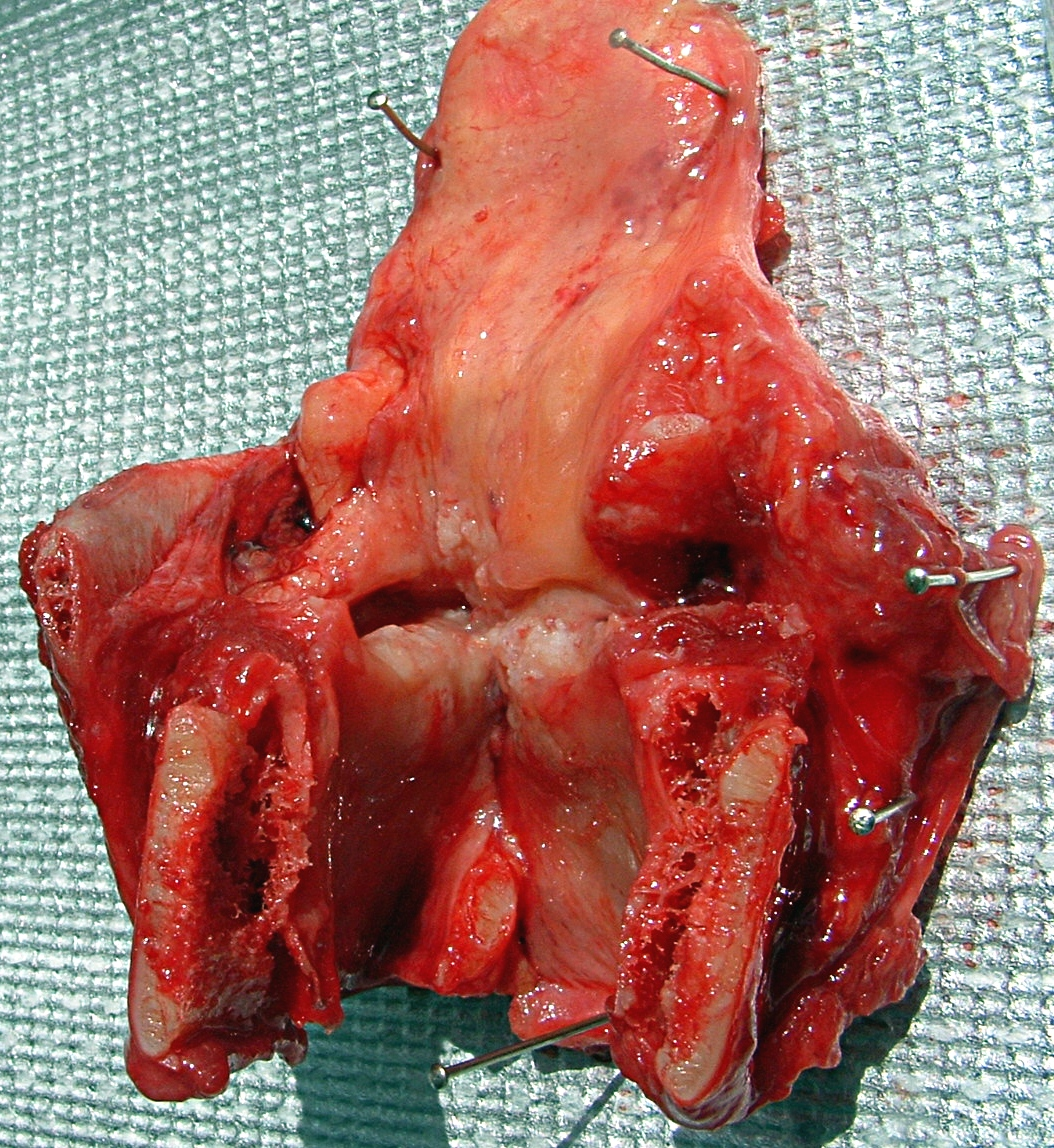 Larynx cancer